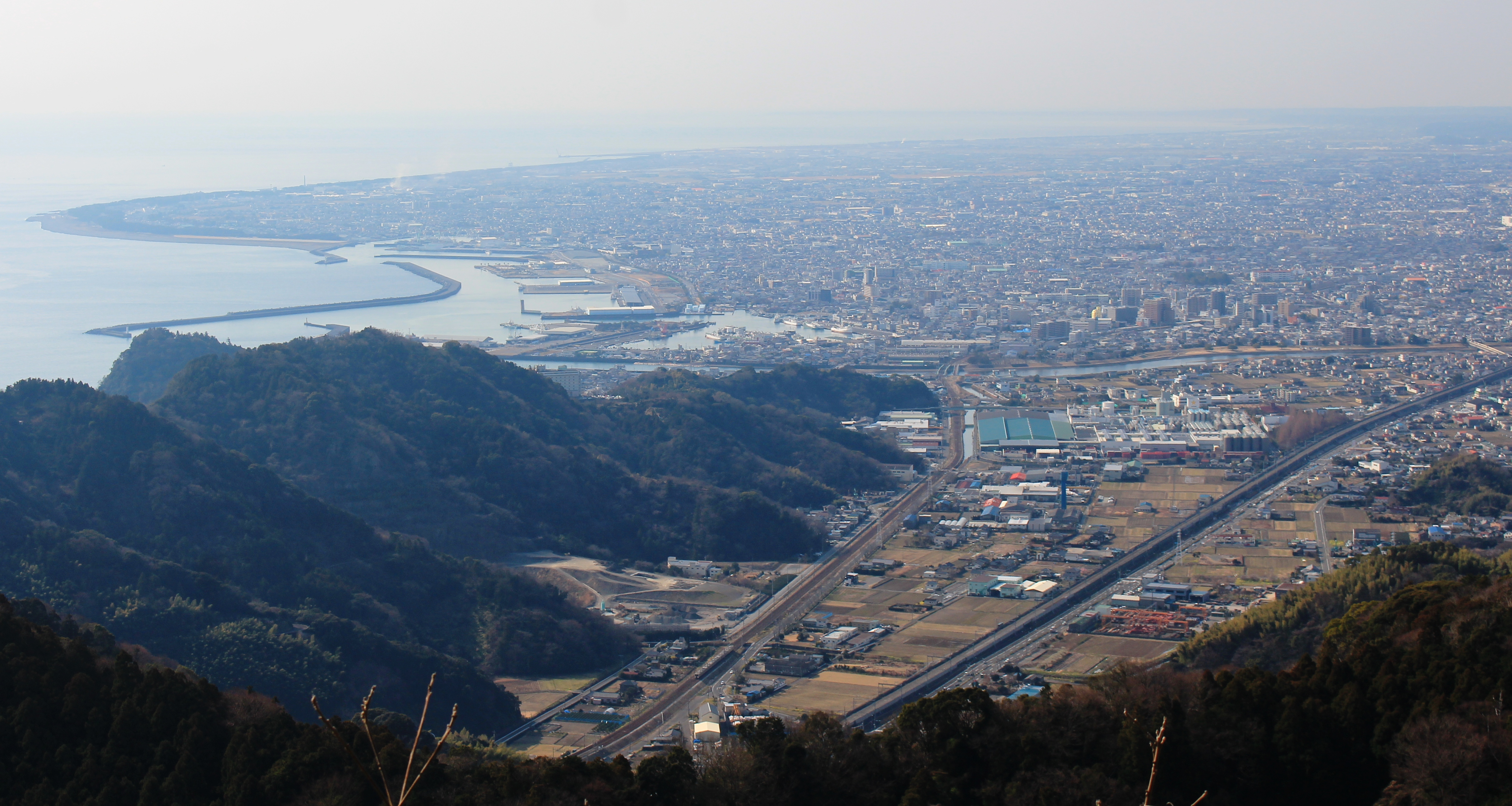 Yaizu seen from Mount Hanasawa in Shizuoka prefecture, Japan.